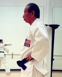 Supreme Grandmaster Nam Suk Lee watches over YMCA class